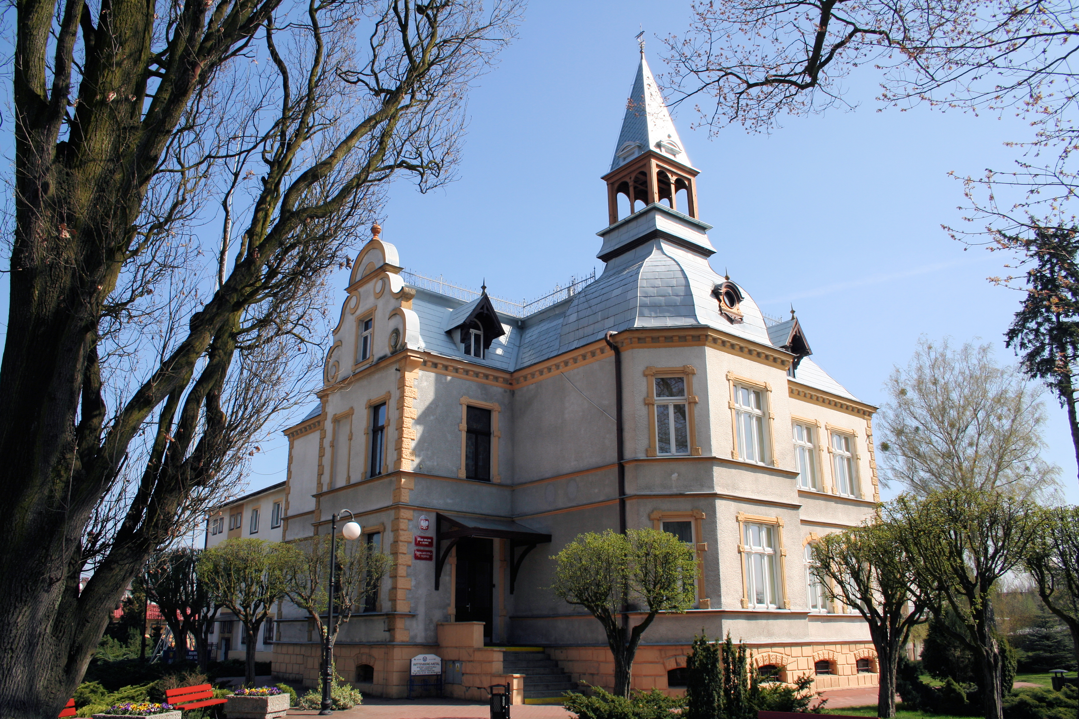 Town hall in Dębno